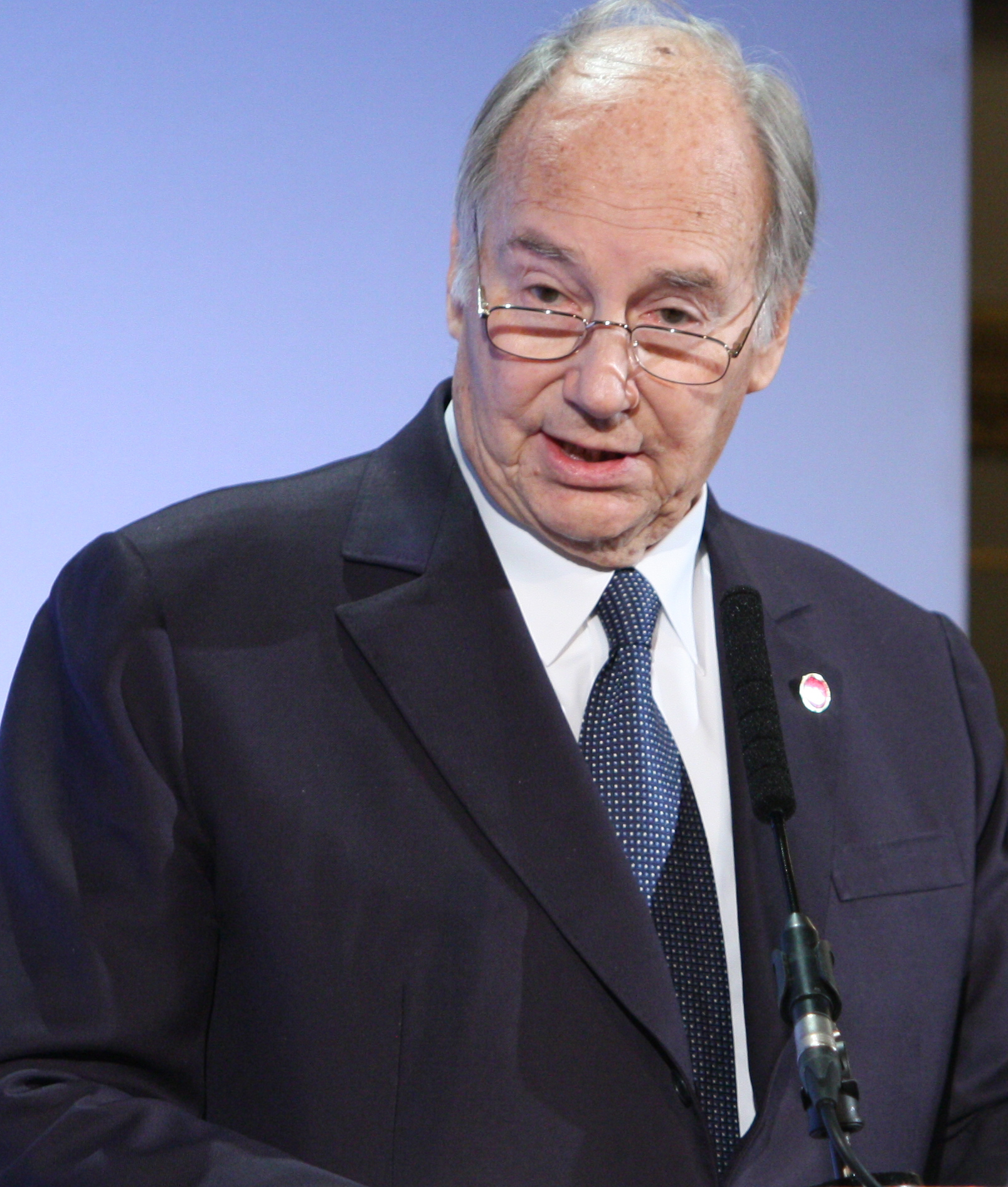 The London Conference on Afghanistan takes place on 4 December 2014, co-hosted by the governments of the UK and Afghanistan. The Conference brings together the Afghan government and international community in support of a secure and peaceful future for Afghanistan. Find out more at: Picture: Patrick Tsui/FCO Free-to-use photo This image is posted under a Creative Commons - Attribution Licence, in accordance with the Open Government Licence. You are free to embed, download or otherwise re-use it, as long as you credit the source as ‘Patrick Tsui/FCO’.